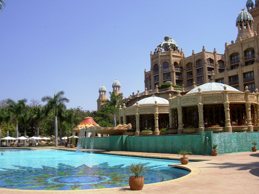 Photo of The Palace - Sun City